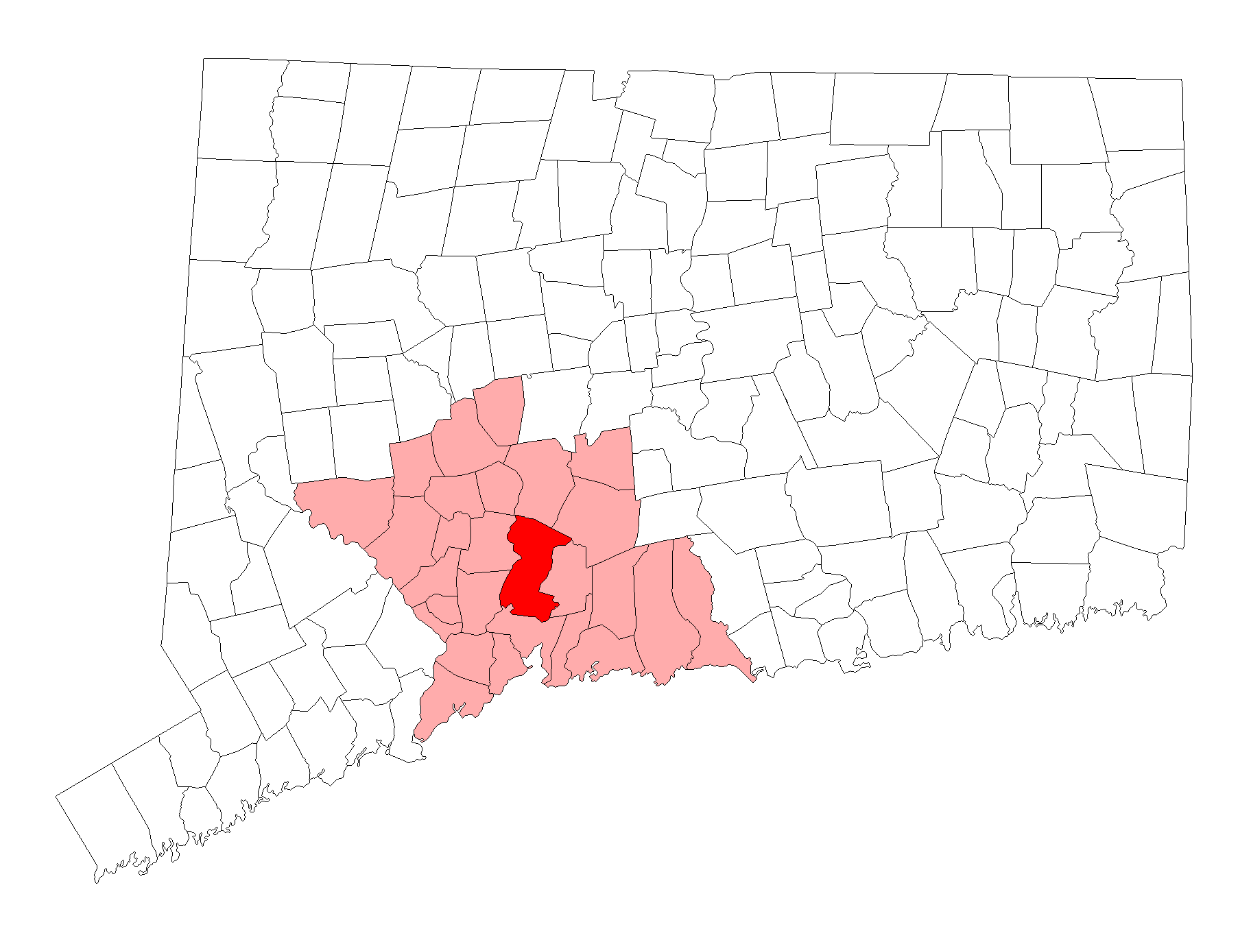 Location of the town of Hamden within New Haven County and the State of Connecticut.